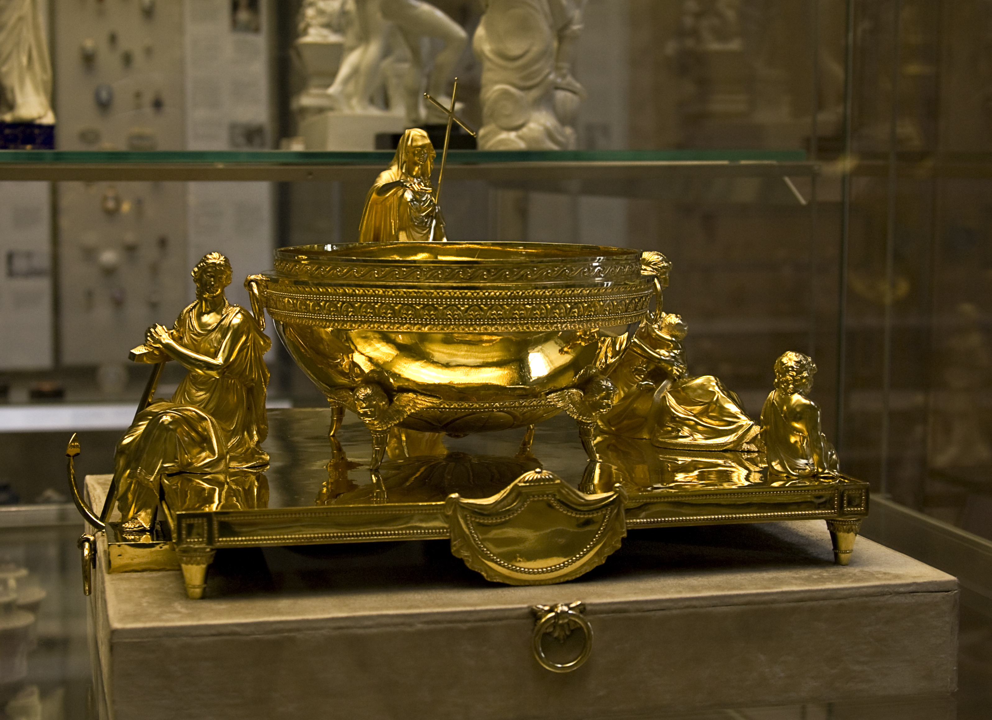 The Portland Font in the British Museum. Tag on exhibit reads: "The Portland Font. English, made of 22 carat gold (223 ounces Troy) with London hallmarks for 1797 and maker's mark of Paul Storr. Purchased with the aid of a grant from the National Heritage Memorial Fund. MLA 1968,4-3,1." See BM database entry for more details